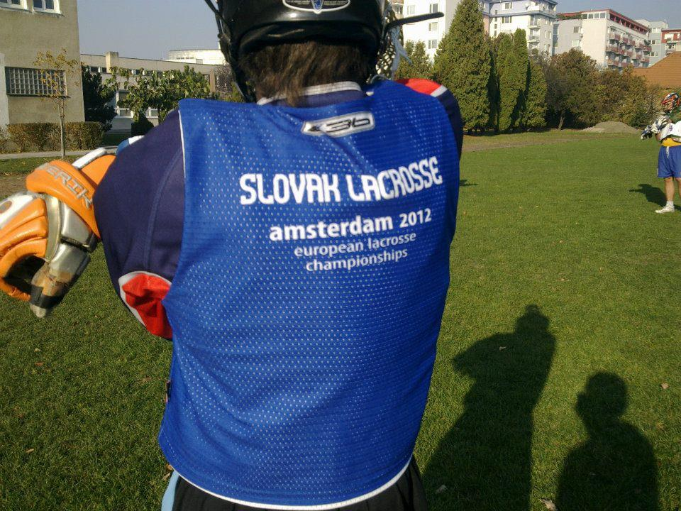 2012 Lacrosse European Championschip - slovak player